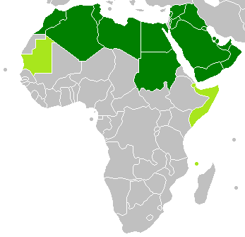 Map of the Greater Arab Free Trade Area Full member of GAFTA and member of the Arab League Candidate member of GAFTA and member of the Arab League